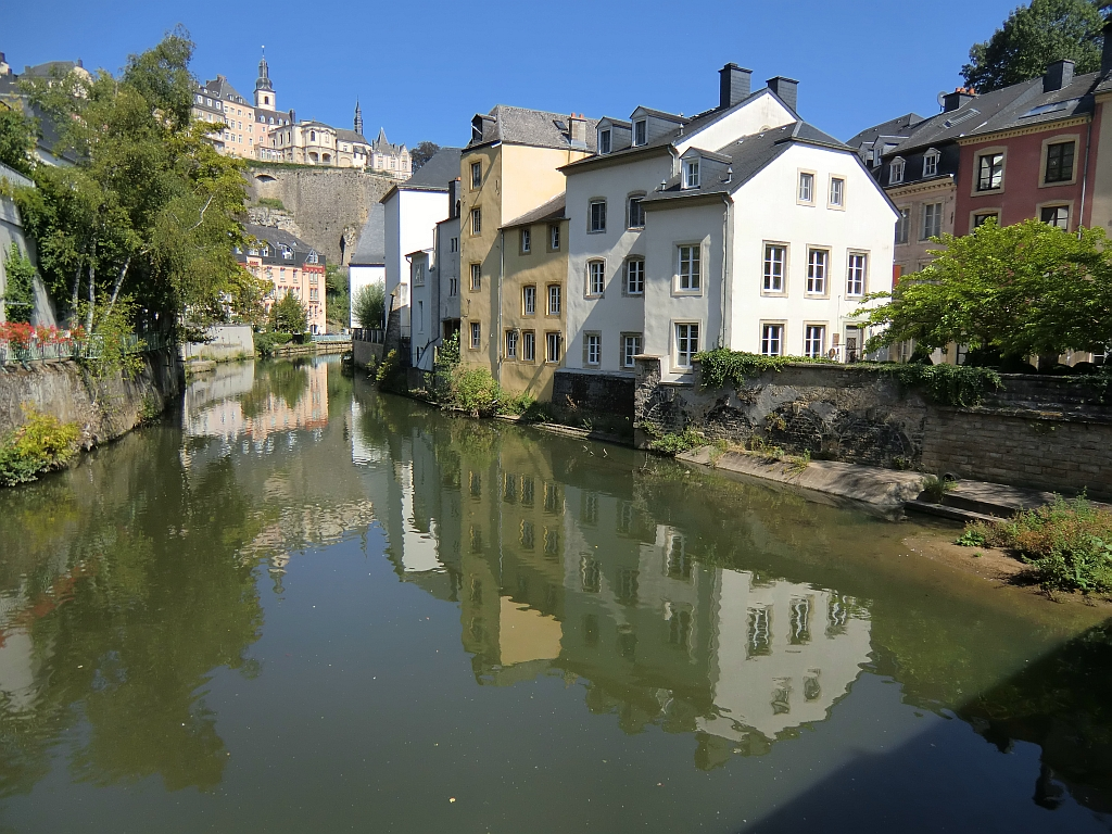 Luxembourg City, Grund/Gronn: Alzette Valley with view on the Corniche; rear sides of houses in Rue Munster (classified monuments).